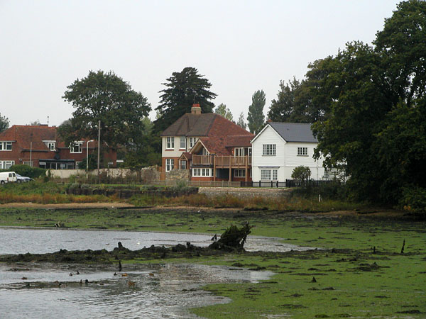 River Hamble. Near Swanwick